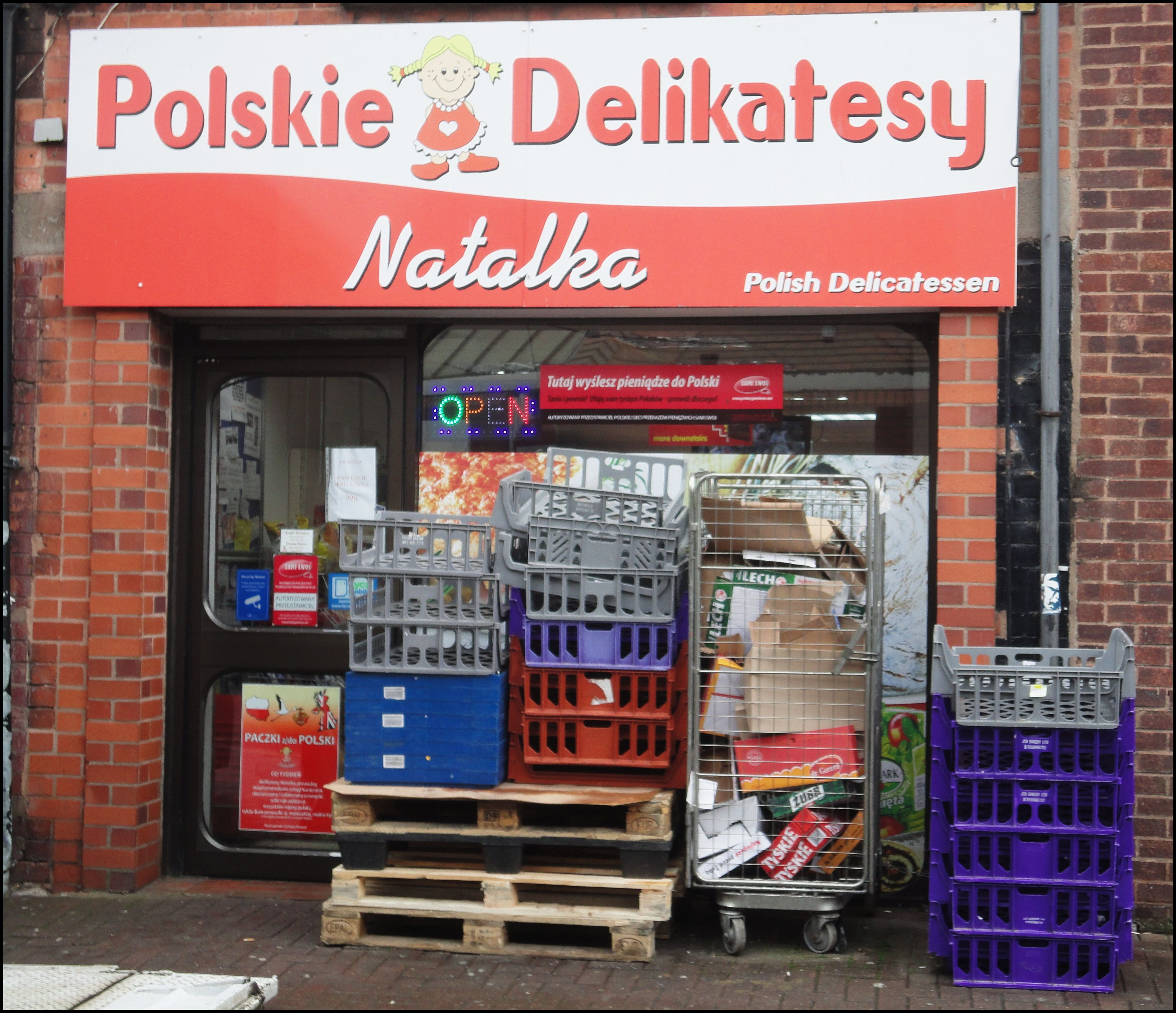 Hereford ... Polish cuisine.